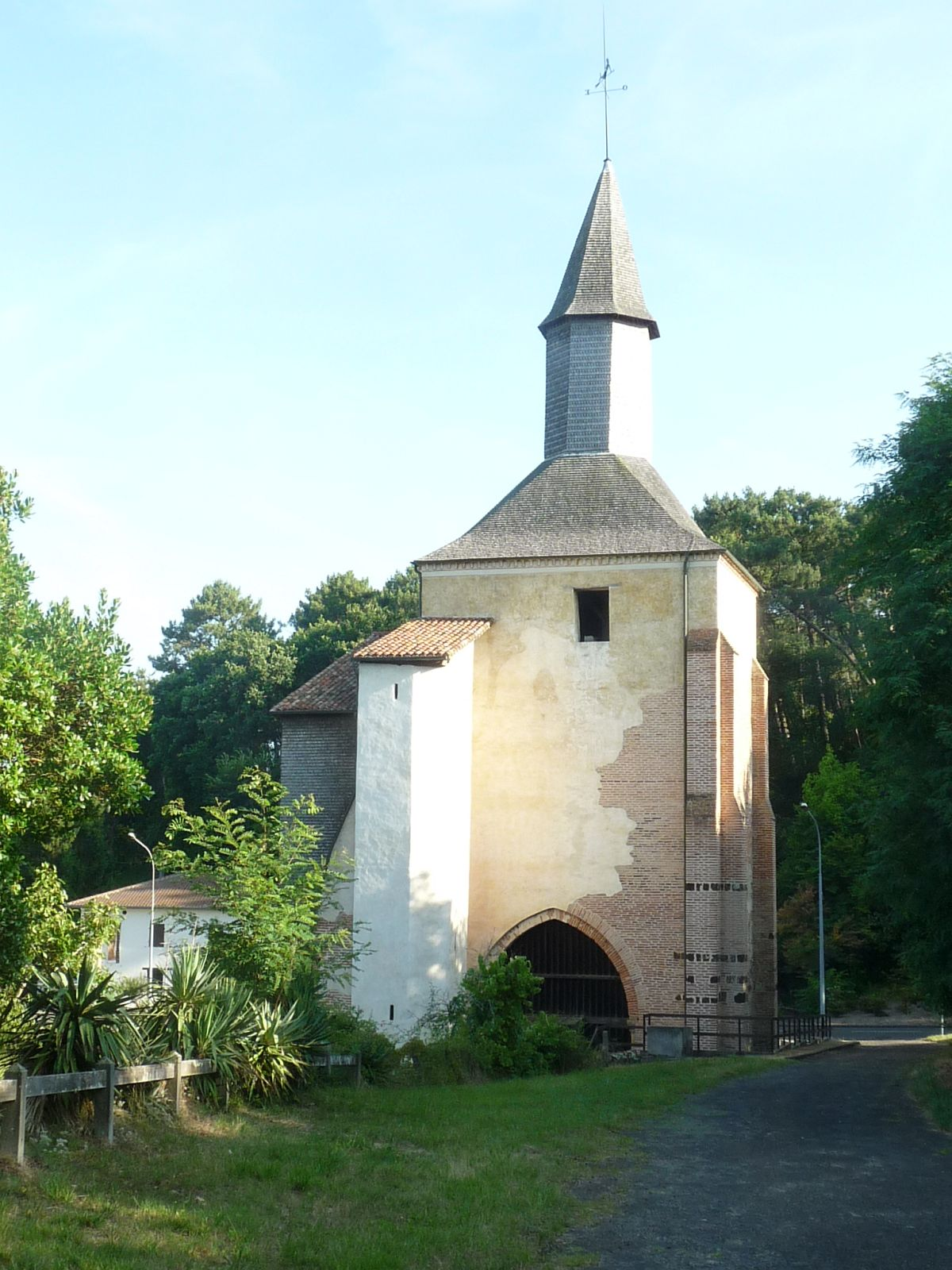 Old abbey and church of Mimizan, Landes, SW France. Ancient benedictine priory.